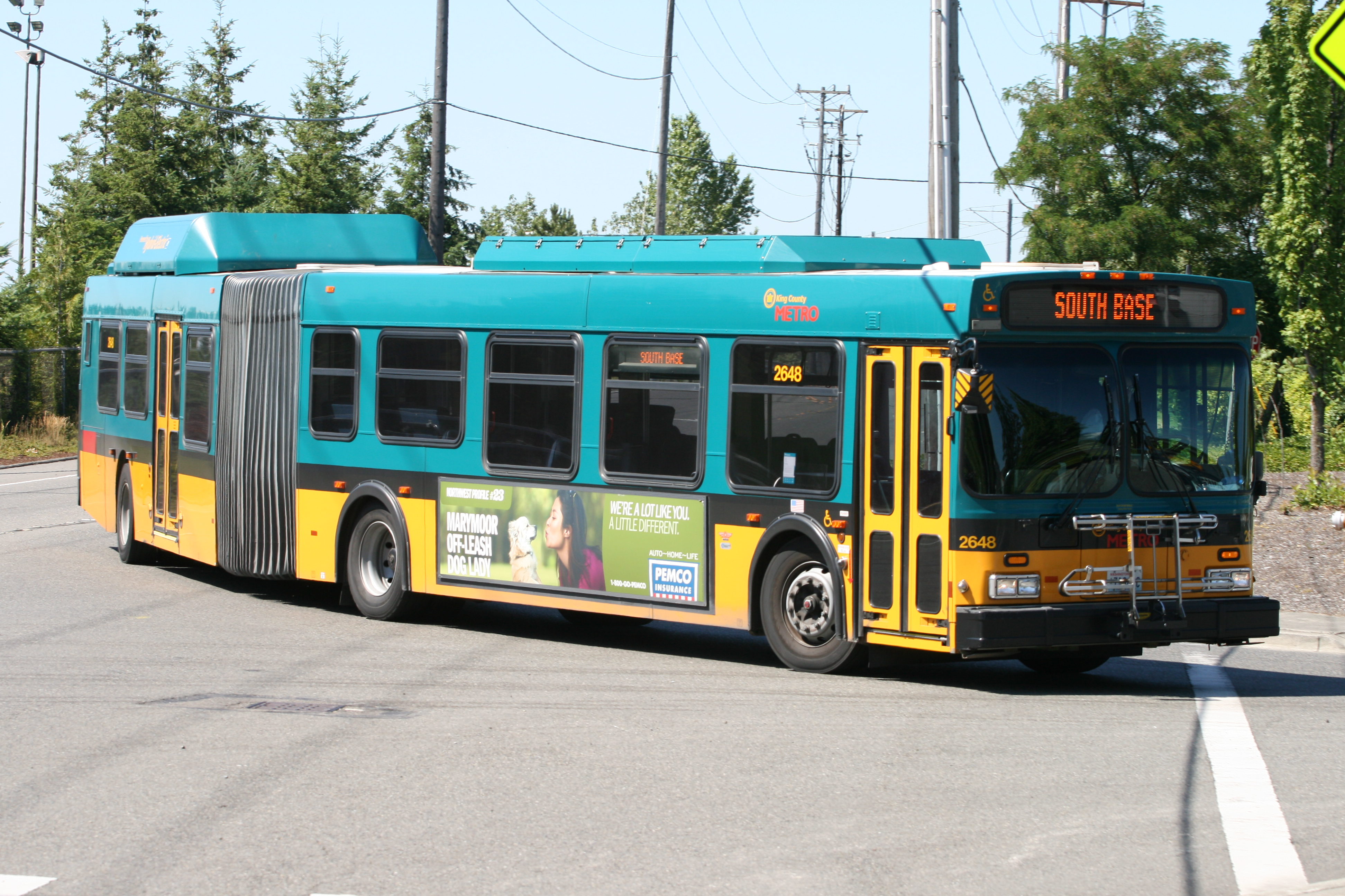 King County Metro's New Flyer DE60LF coach # 2648 pulling in to South Base.